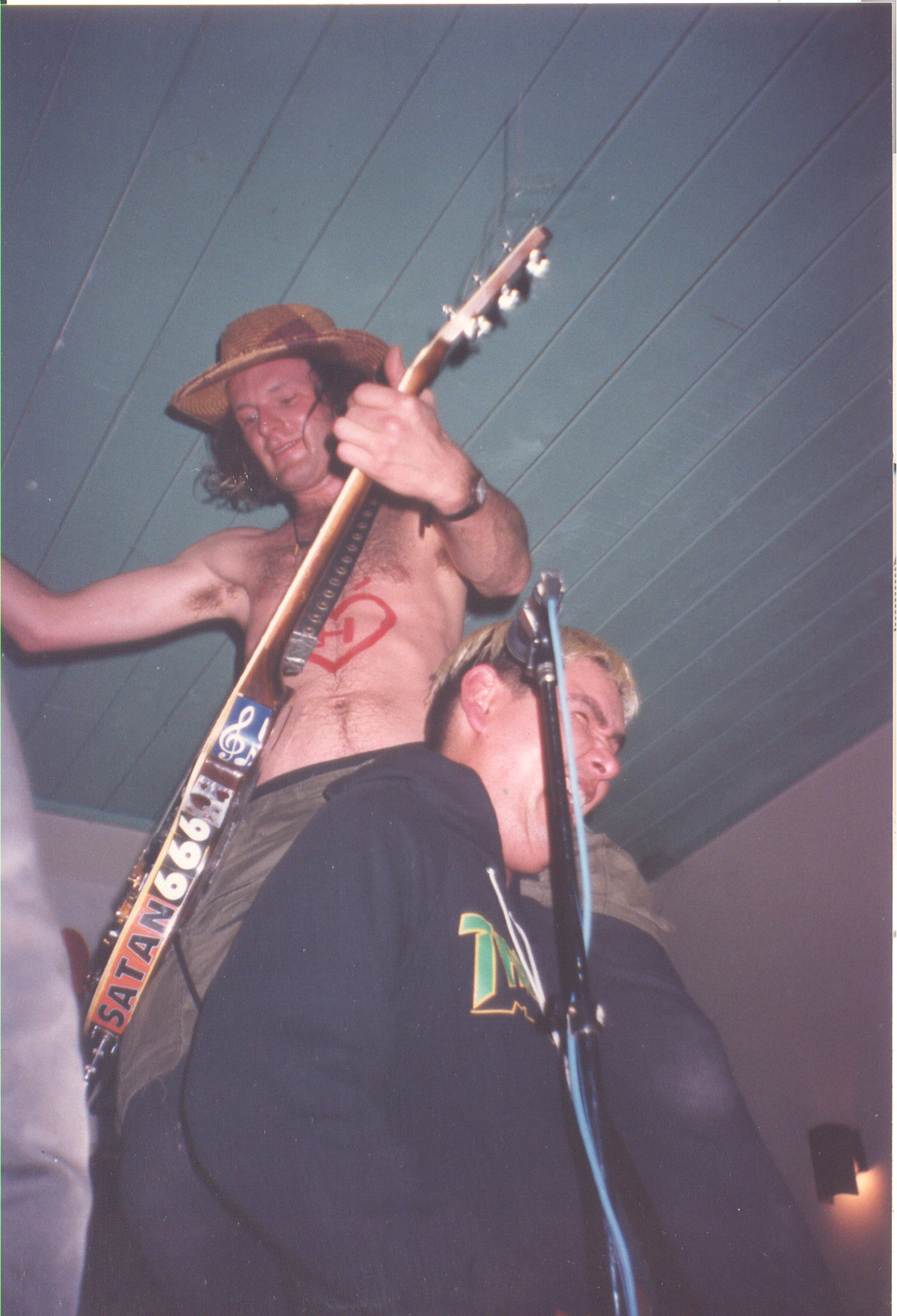 Matty on top of Chubby's shoulders at Pepperoni's show